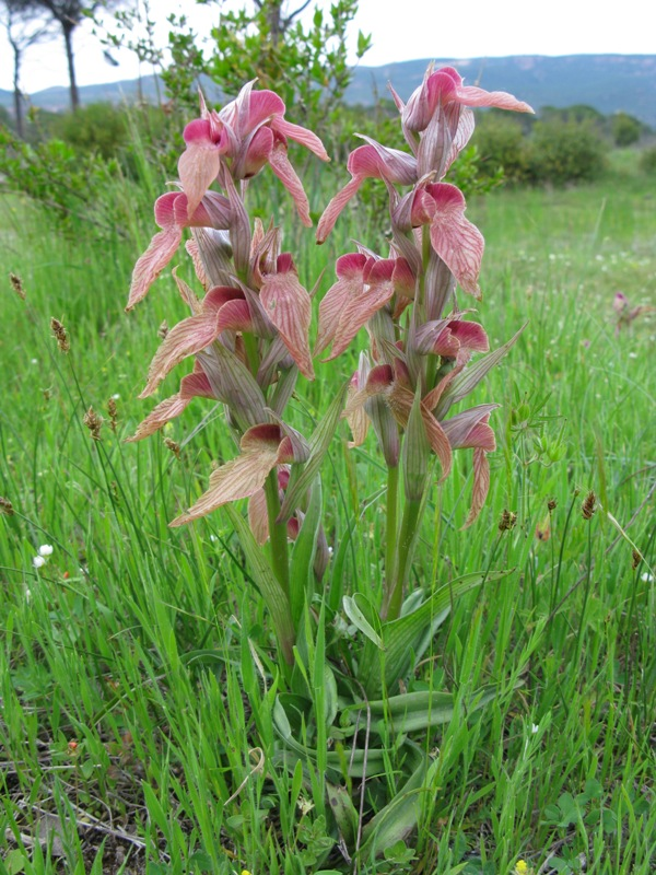 A beautiful Orchidaceae (Serapias neglecta) endemic from coastal Provence and Corsica blooming in spring on swampy fields in the Palayson Plaine (Le Muy - Provence)